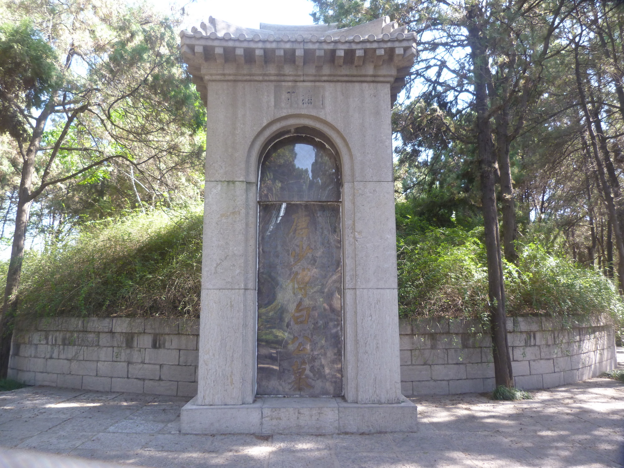 Grave of Bai Juyi in Longmen Grottos